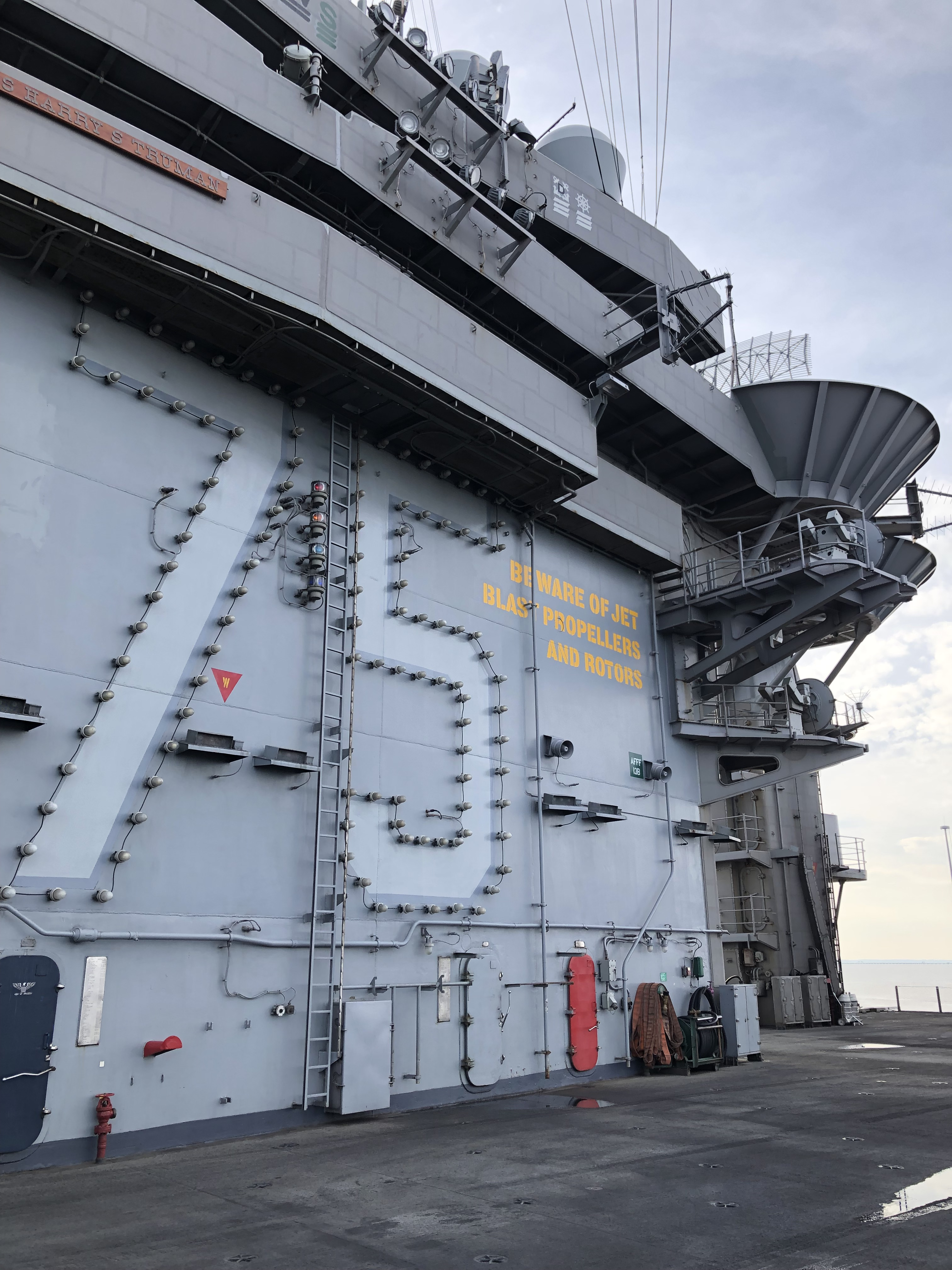 Flight deck of the USS Harry S. Truman (CVN-75)